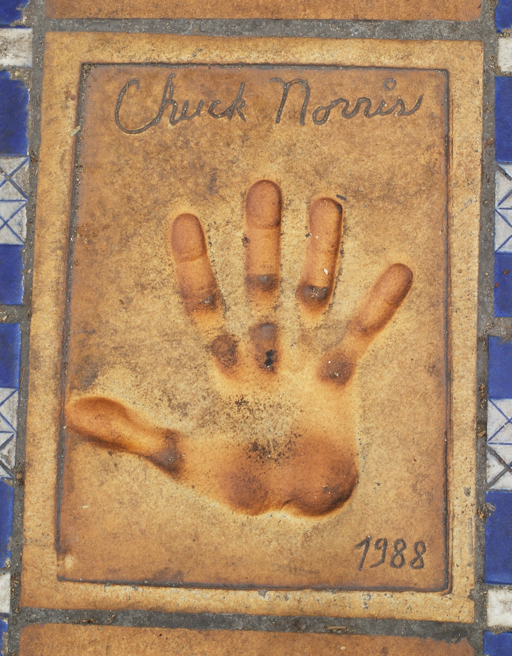 Handprint and autograph of Chuck Norris on the walkway in front of the Palais des Festivals et des Congrès in Cannes.